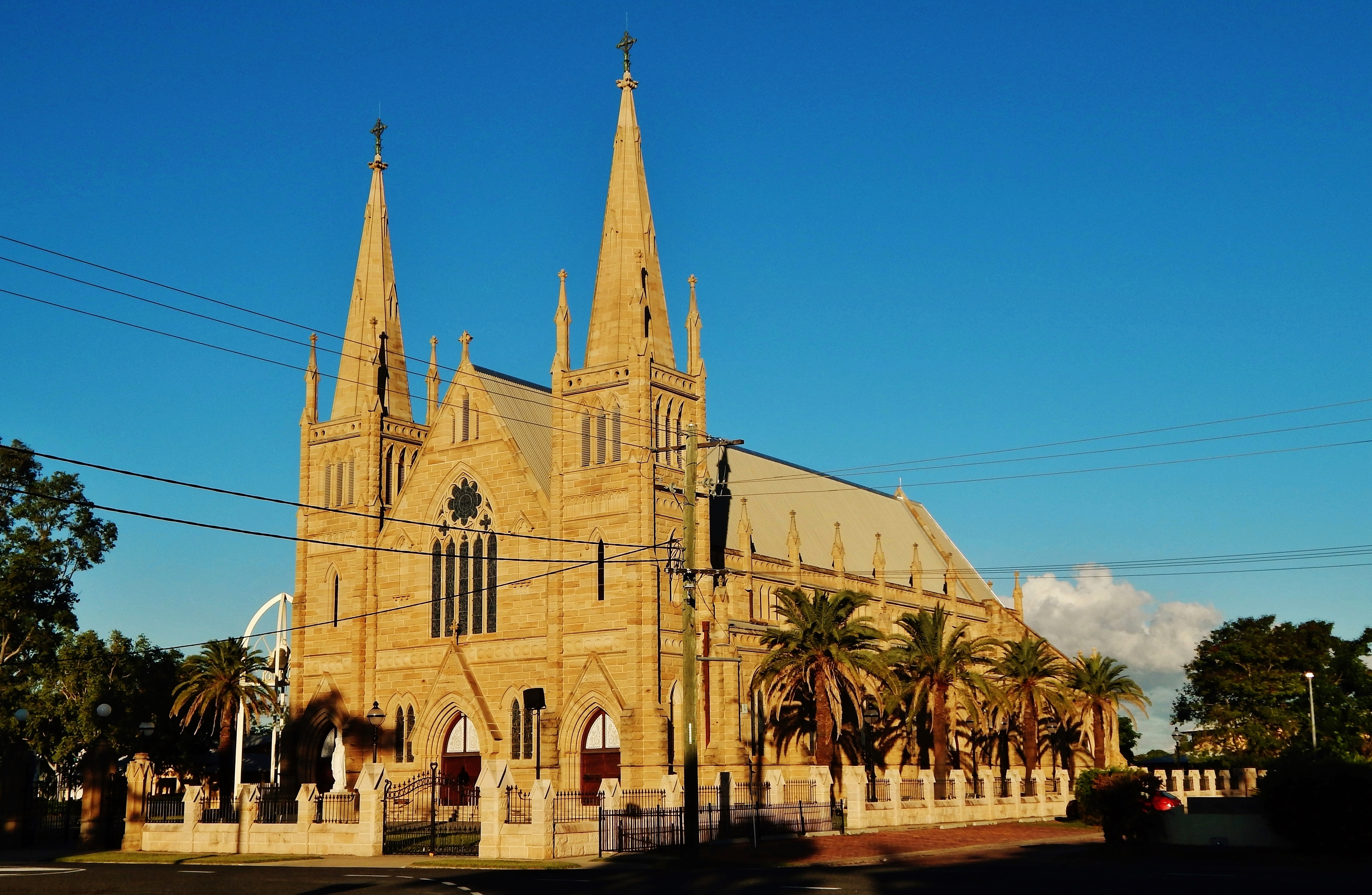 St Joseph's Cathedral in the Rockhampton suburb of Allenstown